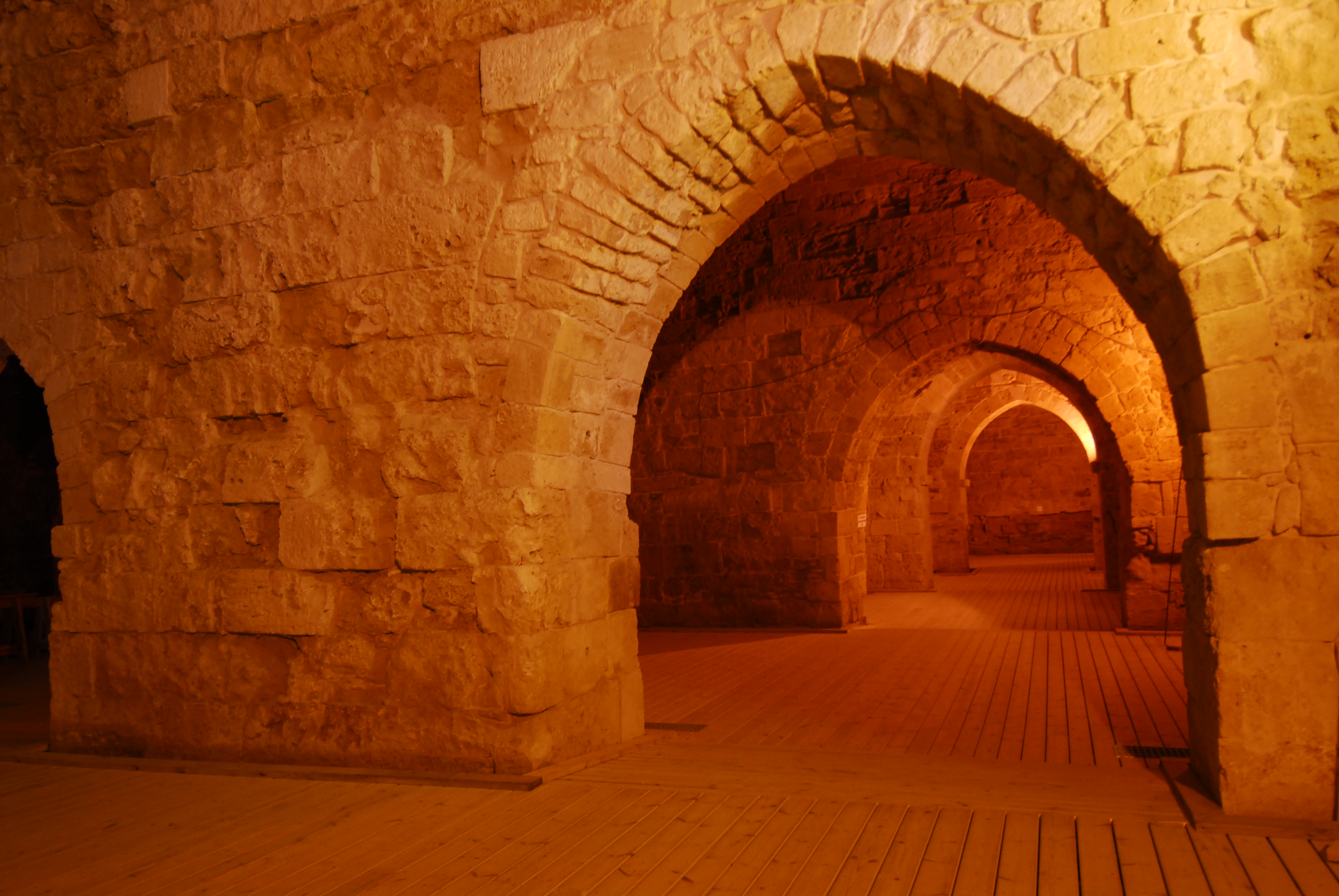 Acre - Akko 8 - Halls at the Citadel Acre